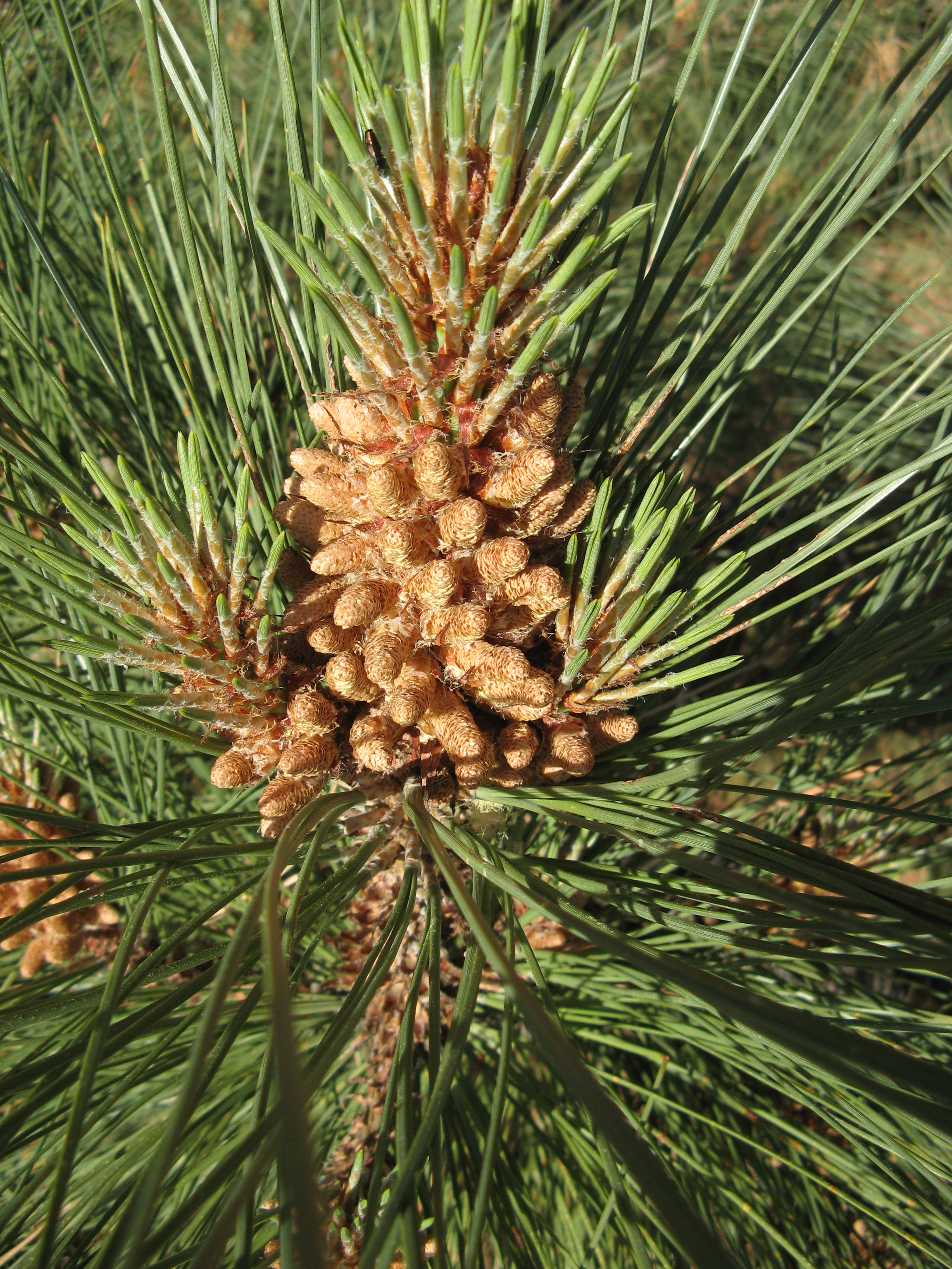 A cluster of pollen-bearing male cones of Pinus coulteri (Coulter Pine) on Mount Wilson (California).